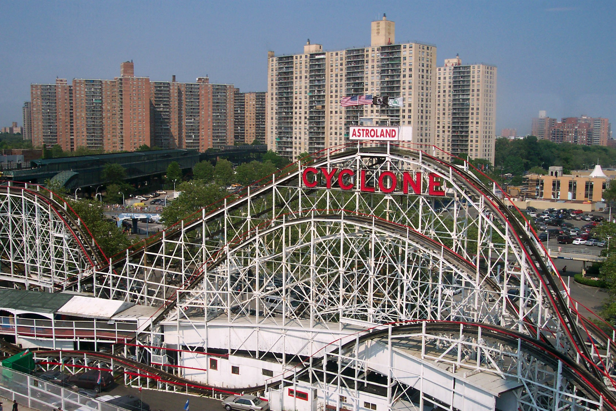 Cyclone Roller Coaster, Coney Island, New York. Shot from the spinning astrotower.